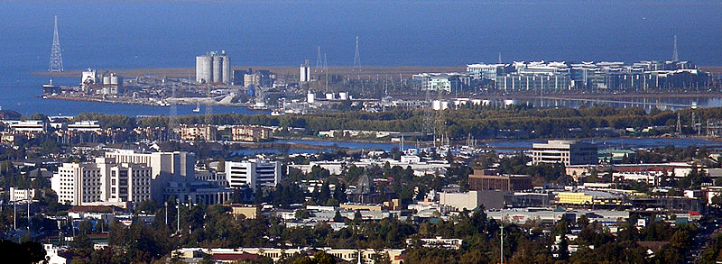 A view of downtown Redwood City, from a parking lot at Canada College in the city's southern foothills. The perspective is northeast towards San Francisco Bay. Note that this perspective was taken with the assistance of 3x optical zoom.